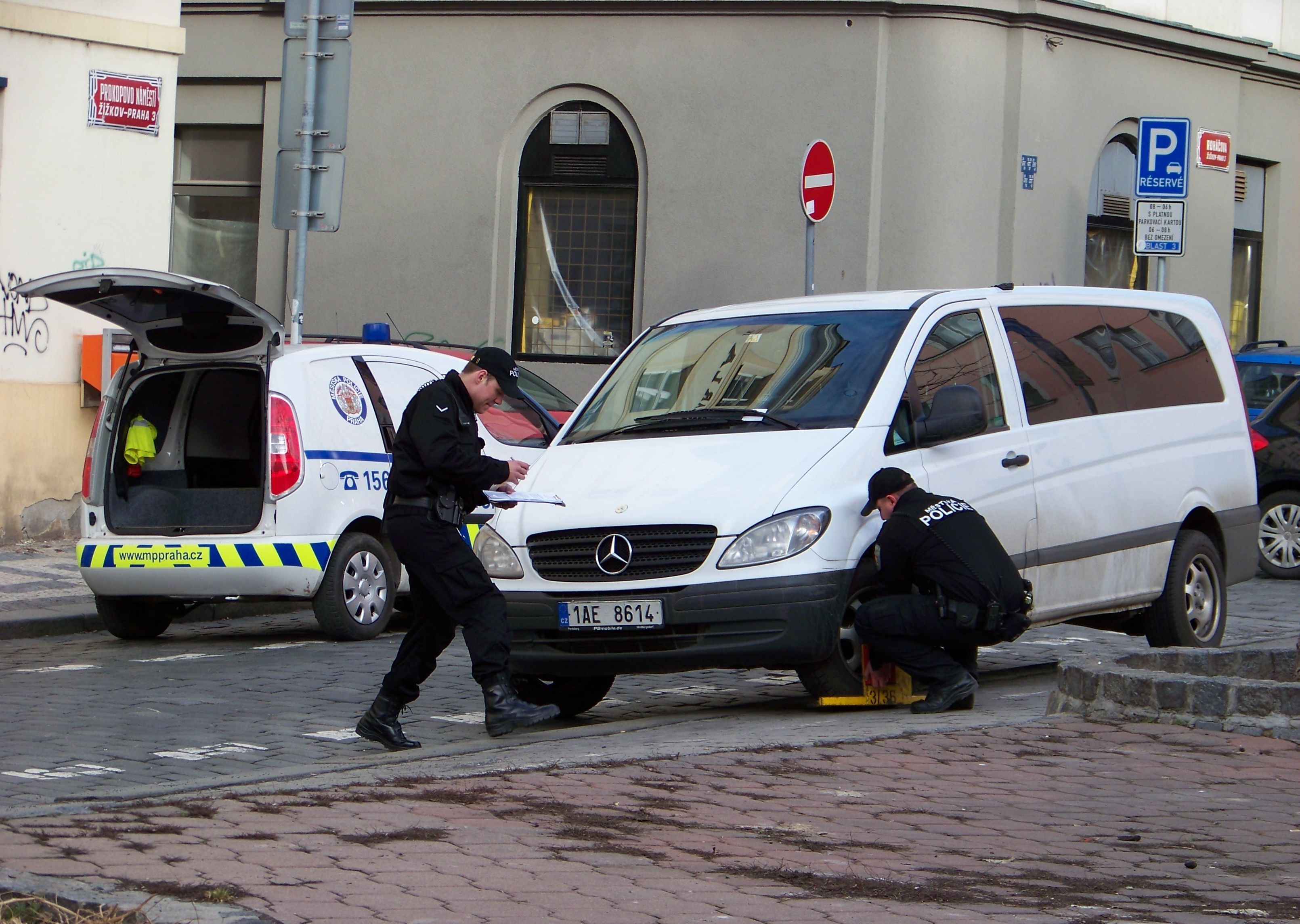 Prague-Žižkov, the Czech Republic. Prokop's Square, the Municipal Police put on wheel clamp on the car.